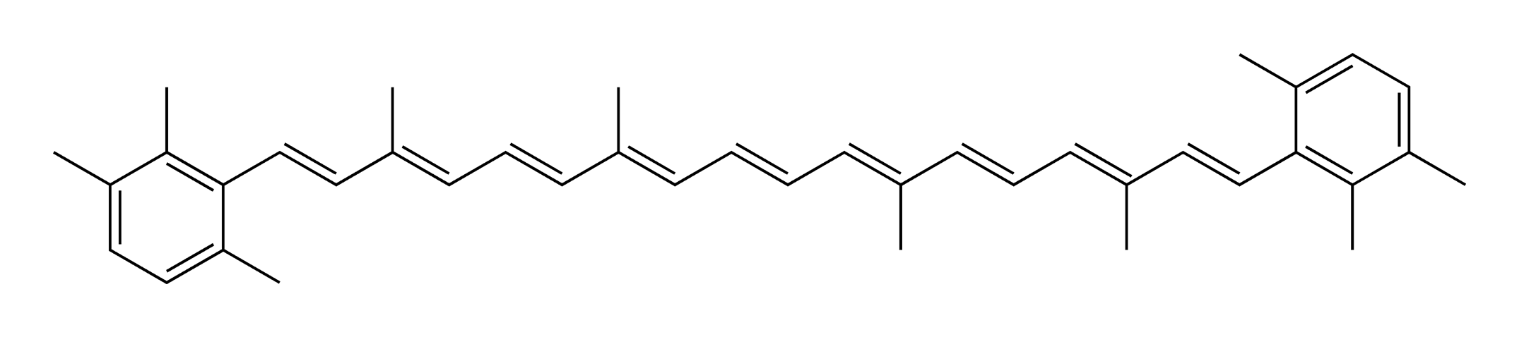 Skeletal formula of the isorenieratene molecule, C40H48, mol. wt. 528.809 g/mol, CAS # 524-01-6. Isorenieratene is a carotenoid that is only produced by the brown-coloured strains of photosynthetic green sulfur bacteria (family Chlorobiaceae). Structure from Geochim. Cosmochim. Acta (2001) 61, 1557-1571. First total synthesis: Bull. Chem. Soc. Jpn. (1959) 32, 1171–1173. Structure drawn in ChemDraw Ultra 11.0.